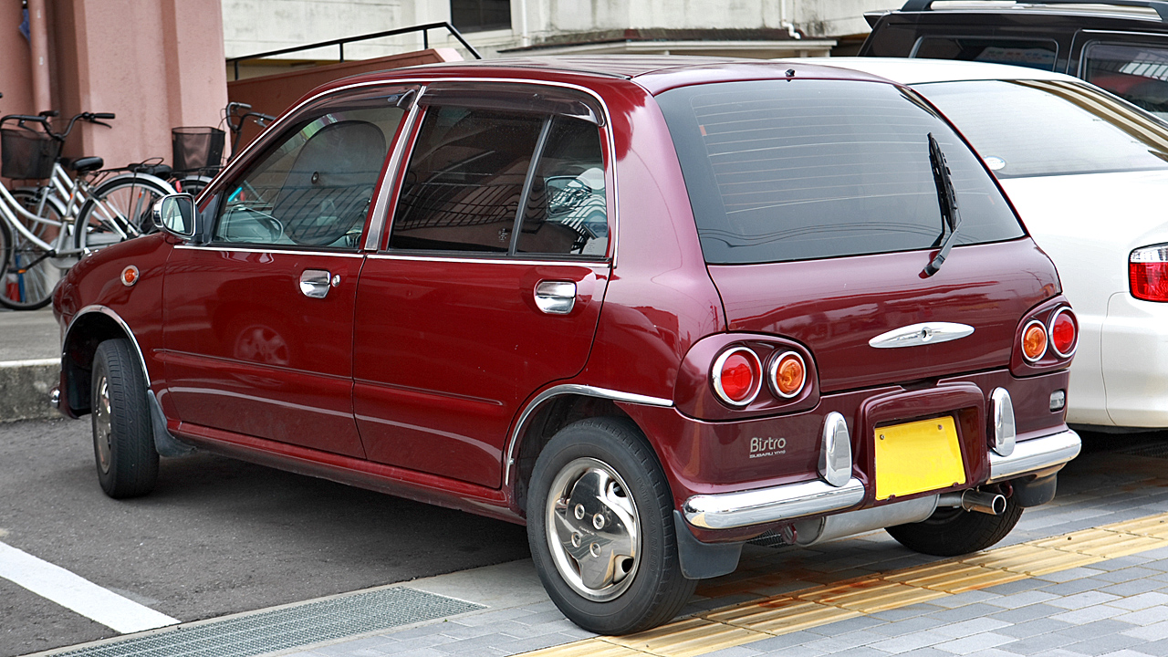 Subaru Vivio Bistro